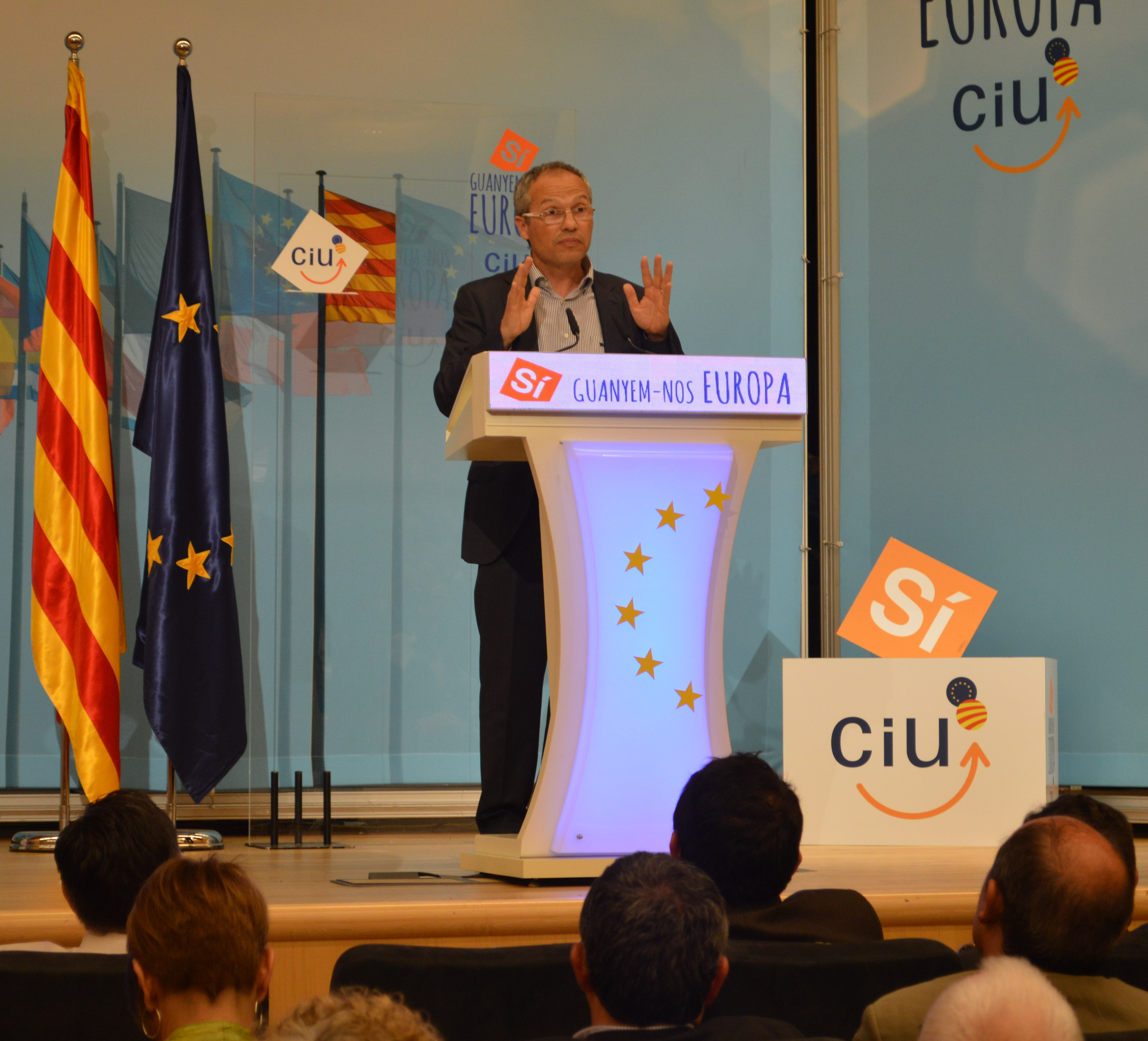 Catalan politician Carles Rossinyol i Vidal at a rally in May 2014.